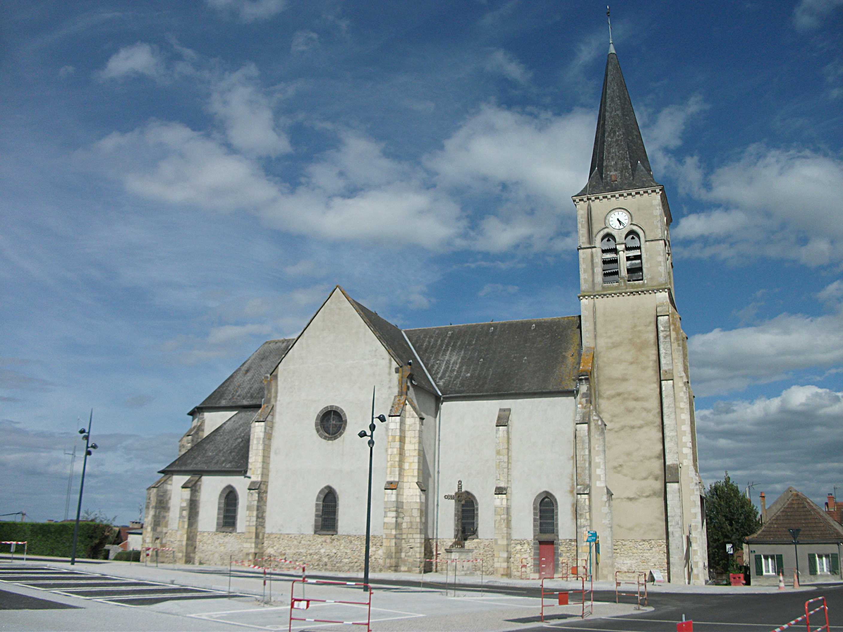 Church and place de l'Église renovated in Saint-Rémy-en-Rollat, Allier, Auvergne-Rhône-Alpes, France. [14856]